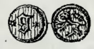 Glatz Heller 1462-1498